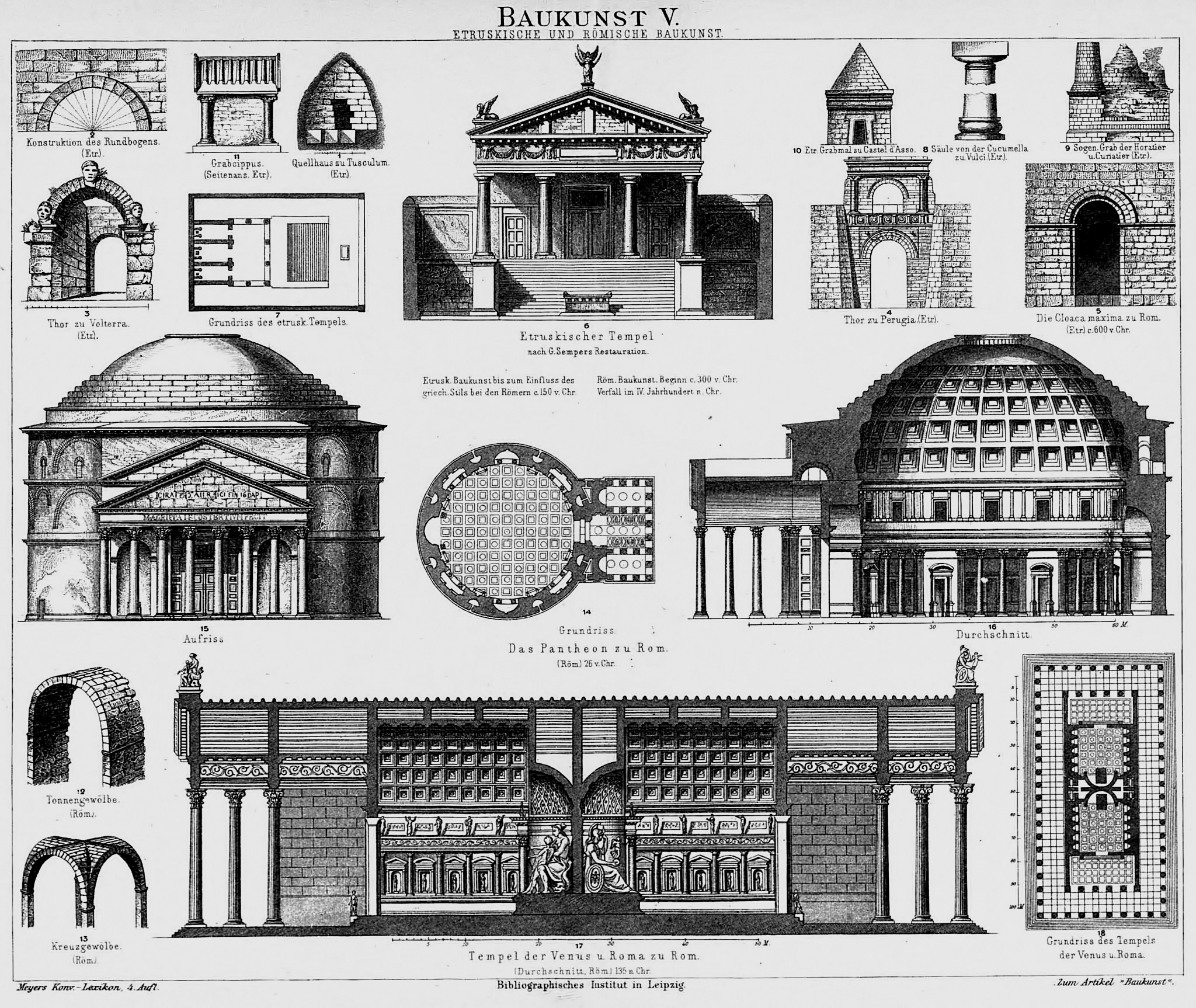 Roman and Etruscan architecture.